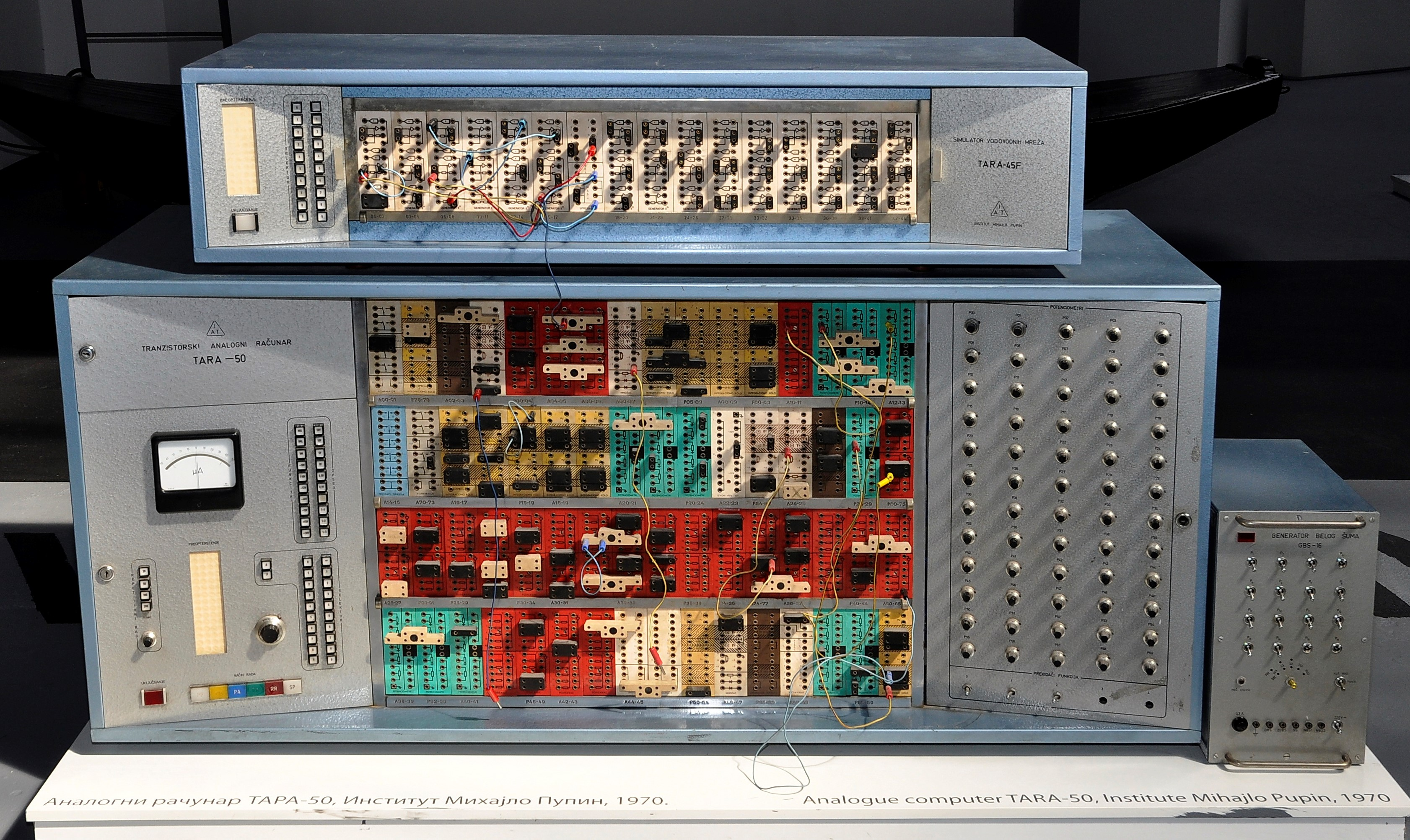 Analog computer model TARA 50 from Insistute Mihajlo Pupin in Belgrade. It was used in 1970. Today, this model is located in Museum of Science and Technology Belgrade.